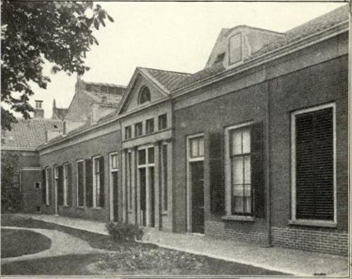 Original Hofje van Beresteijn, Lange Herenstraat, Haarlem, the Netherlands. Demolished in 1968.